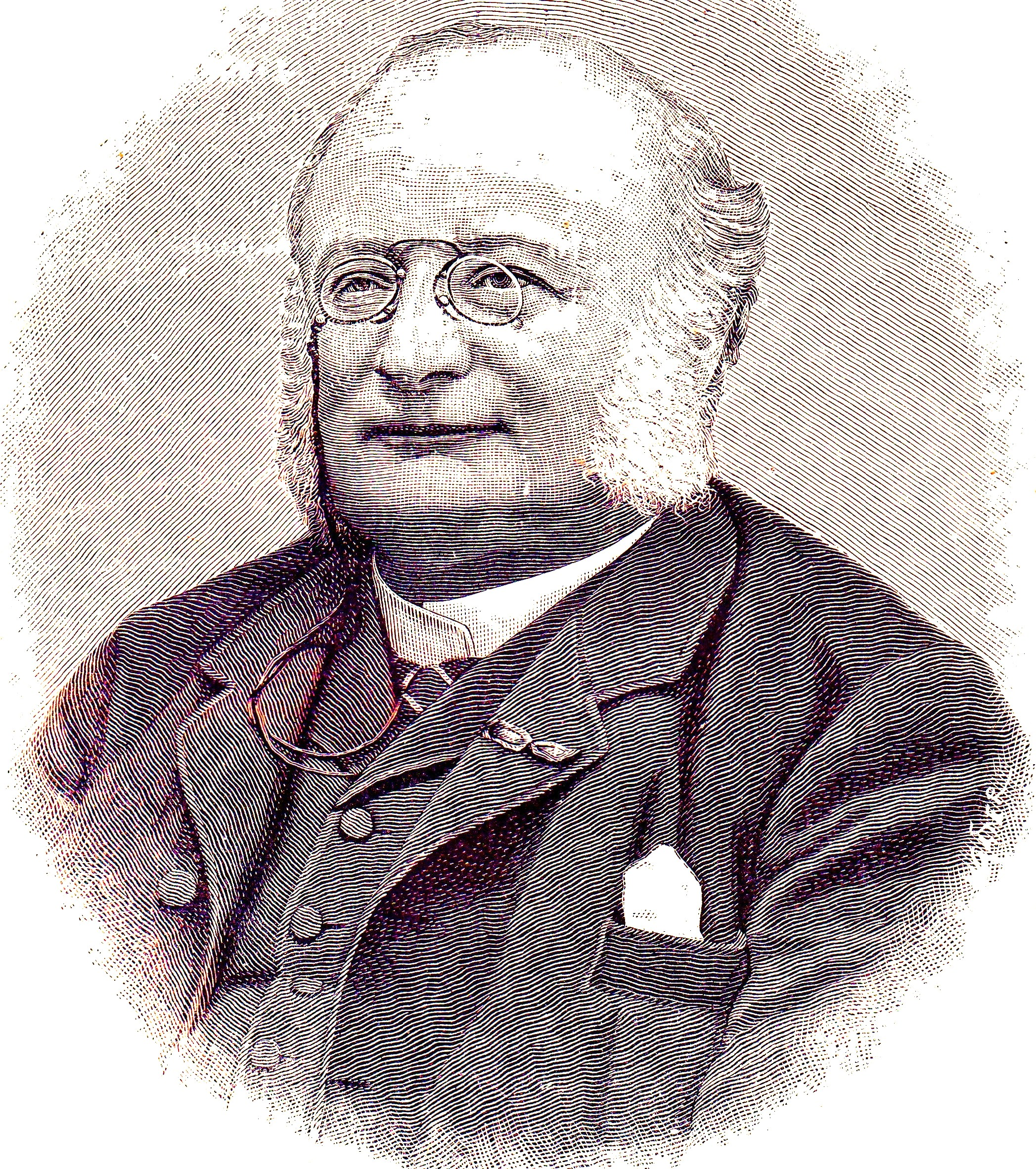 Mr. H.D. Lyvyssohn Norman